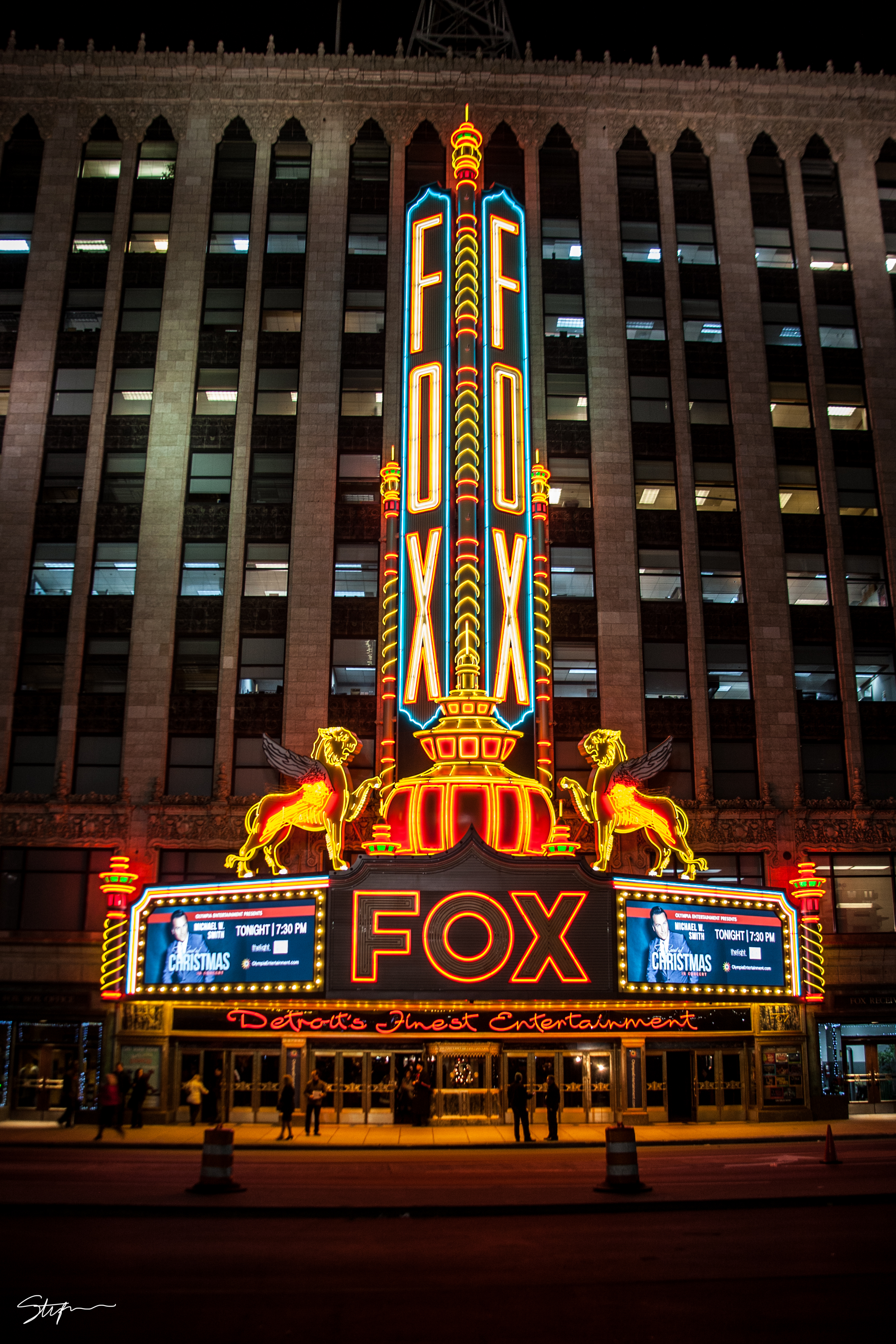 The Fox Theatre in downtown Detroit, Michigan with the marquee lit up for a show. New LED lights were installed in 2015.